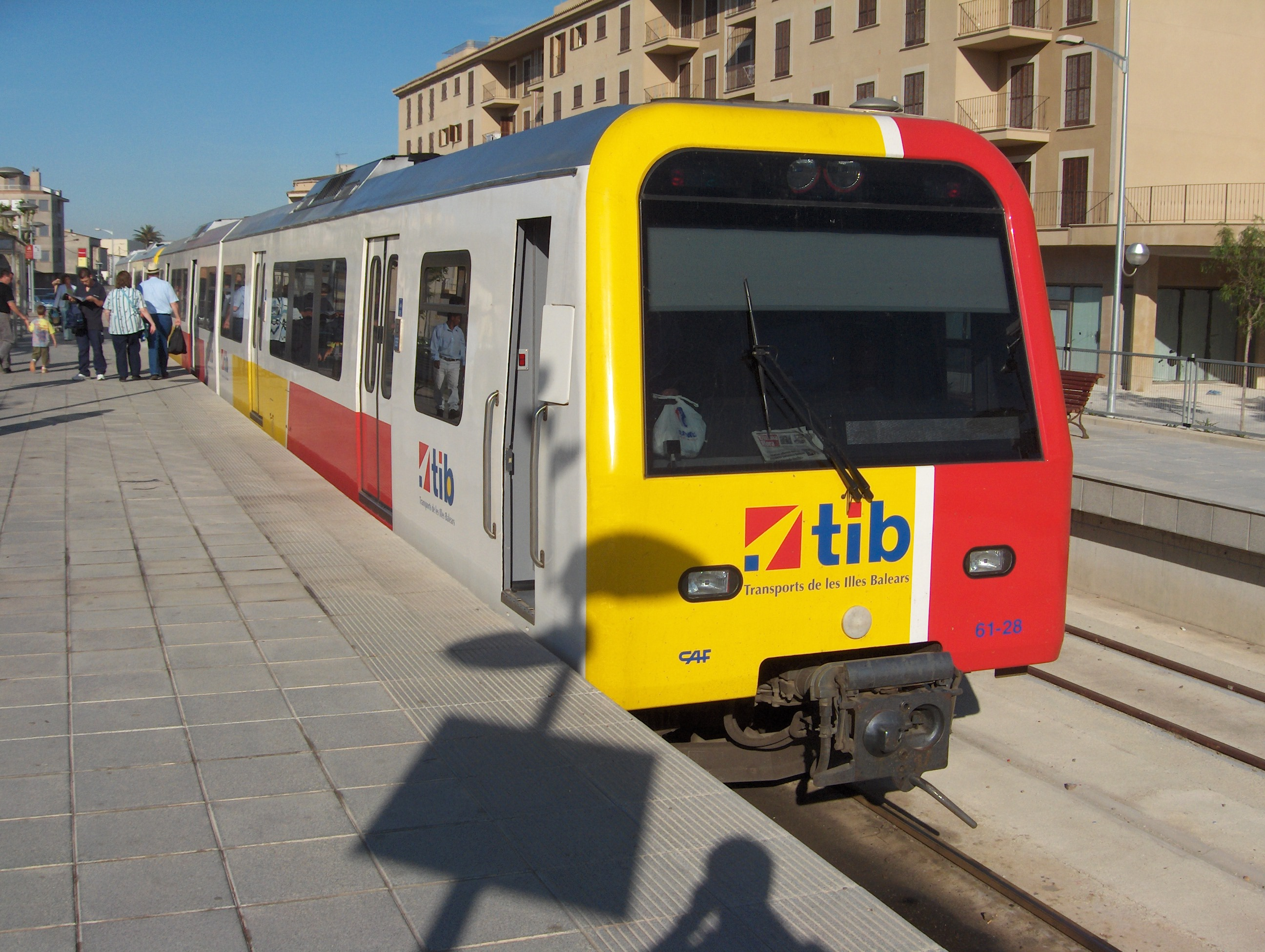 SFM class61 in Manacor.